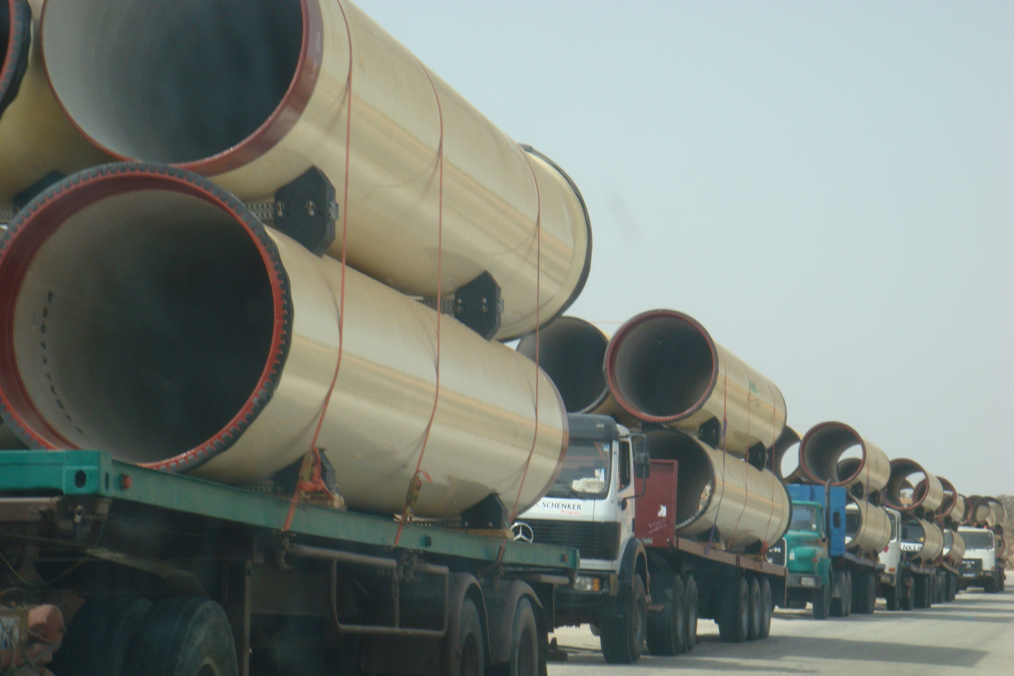 aftout essahli project